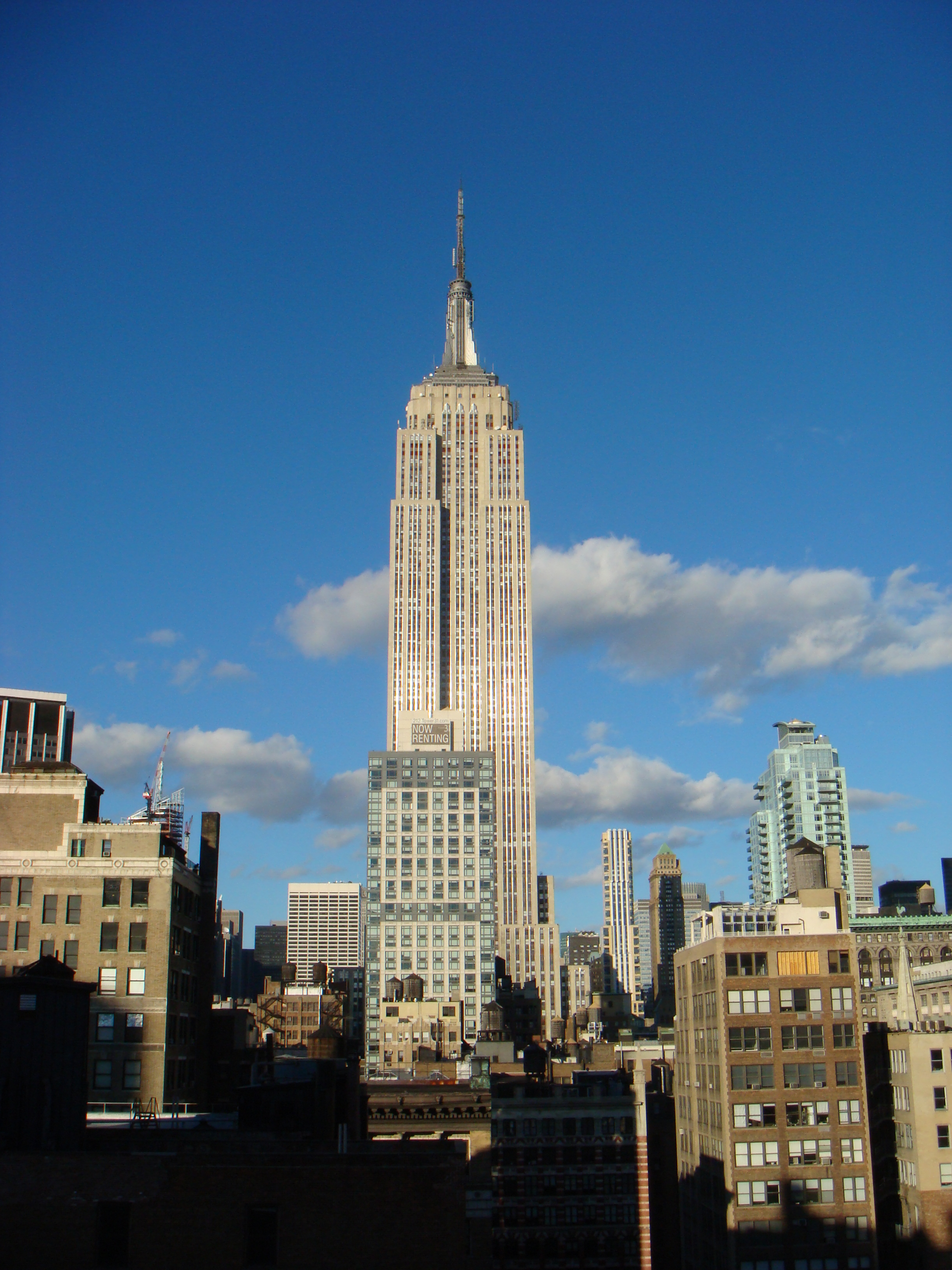 Empire state building